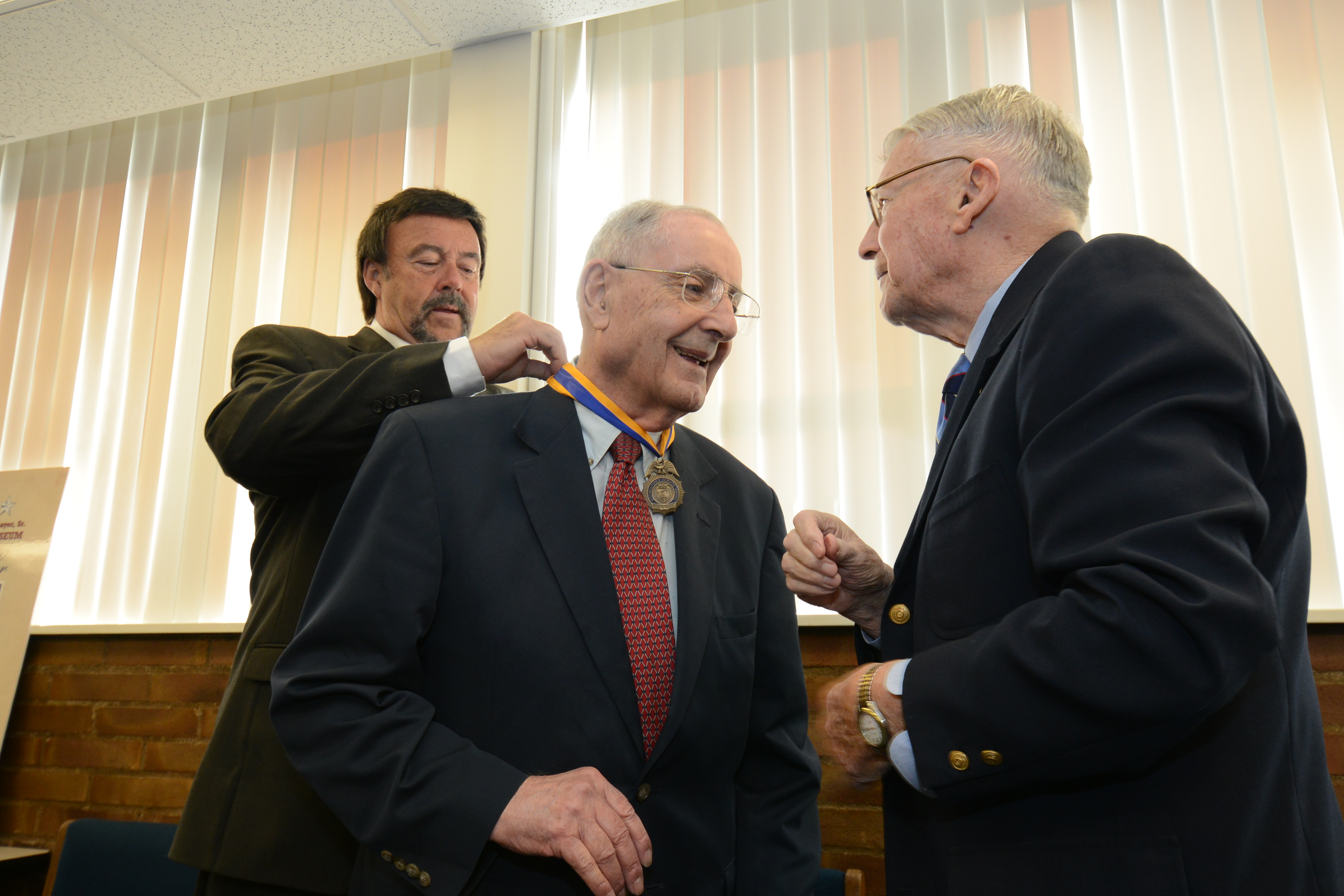 Emmert International President Terry W. Emmert (left) adorns former Oregon Governor Vic Atiyeh (center) with an Oregon National Guard medal, given by Oregon State Defense Force Brig. Gen. James B. Thayer (right), at the Oregon Military Museum in Clackamas, Ore., April 11. The men were joined by former Oregon Governor Ted Kulongoski, Oregon Department of Veterans Affairs Director Cameron Smith, Miss Oregon Nichole Mead, and John, Jim and Mike Thayer for a tour of the construction site, and were able to watch the removal of the old Camp Withycombe guard shack. Several individuals from today’s group are scheduled to attend a sold-out fundraiser event on April 20, which will feature entertainment by Tommy Thayer of the rock band KISS. Proceeds from the gala event will go toward the two-year capital campaign to raise funds for the Brig. Gen. James B. Thayer Museum located at Camp Withycombe. (Photo by Master Sgt. Nick Choy, Oregon Military Department Public Affairs)